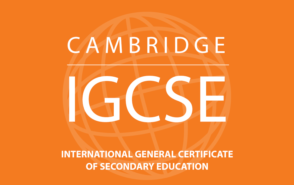 cover for igcse description